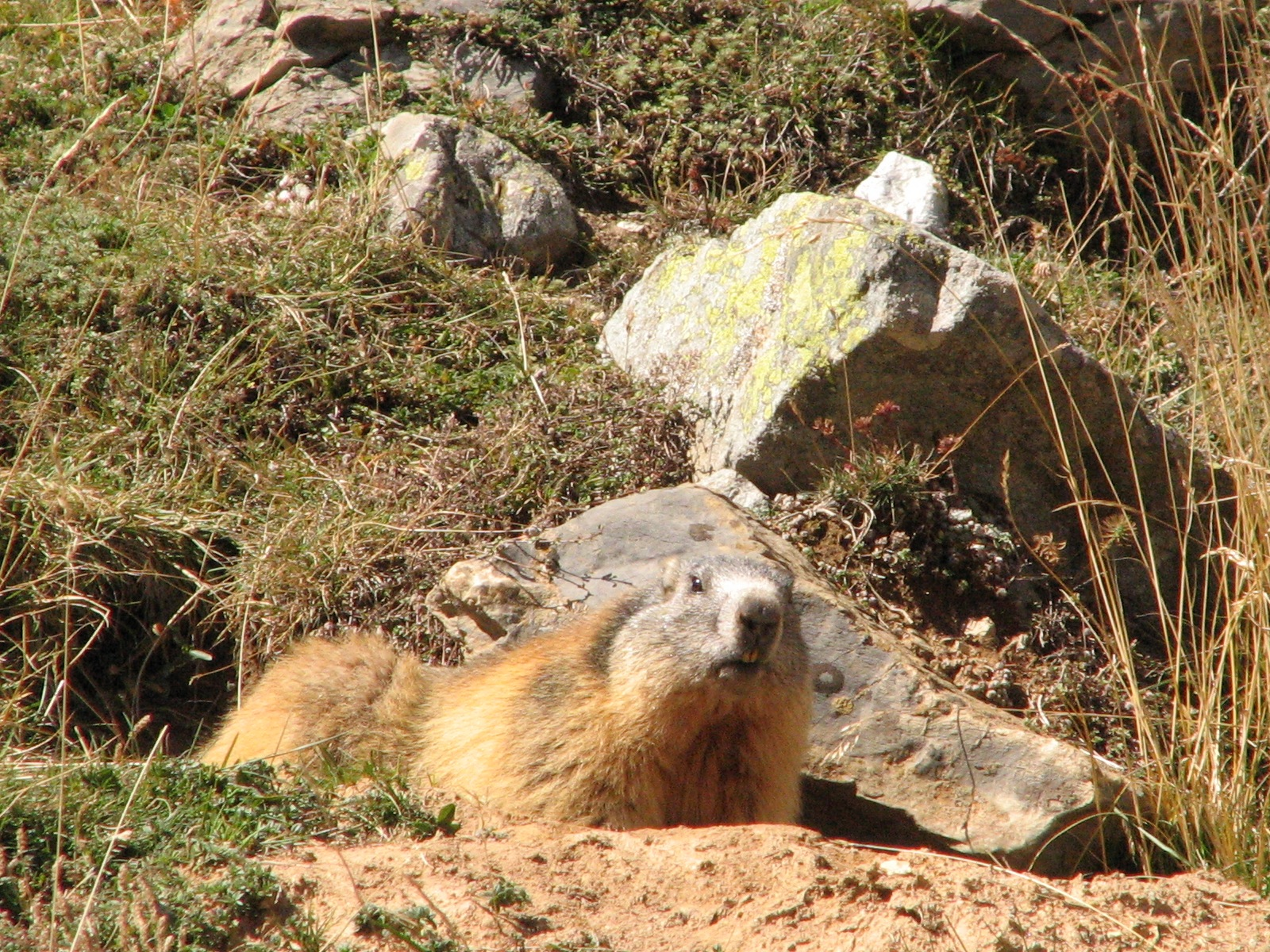 Alpine Marmot in Parc National des Écrins (France). Photo taken the 21st of September, 2005.